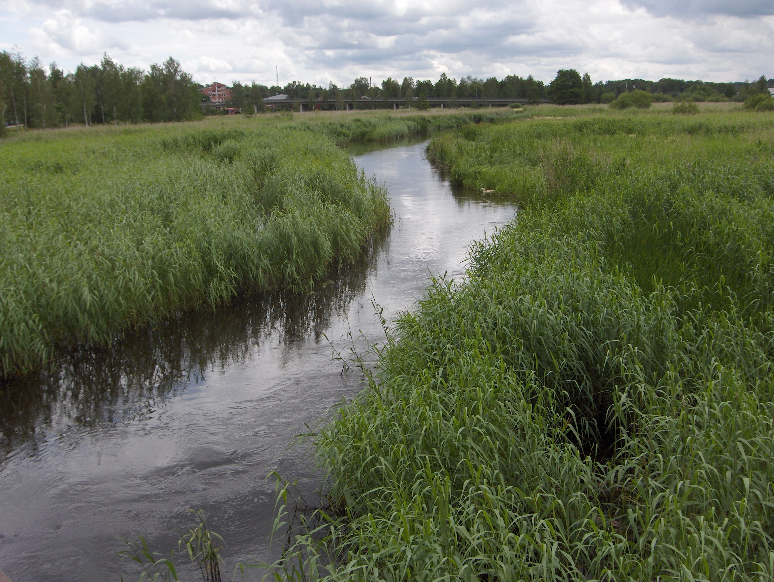 Skeboån (Skebo stream) in northern Uppland, Sweden, near its mouth in Hallstavik.